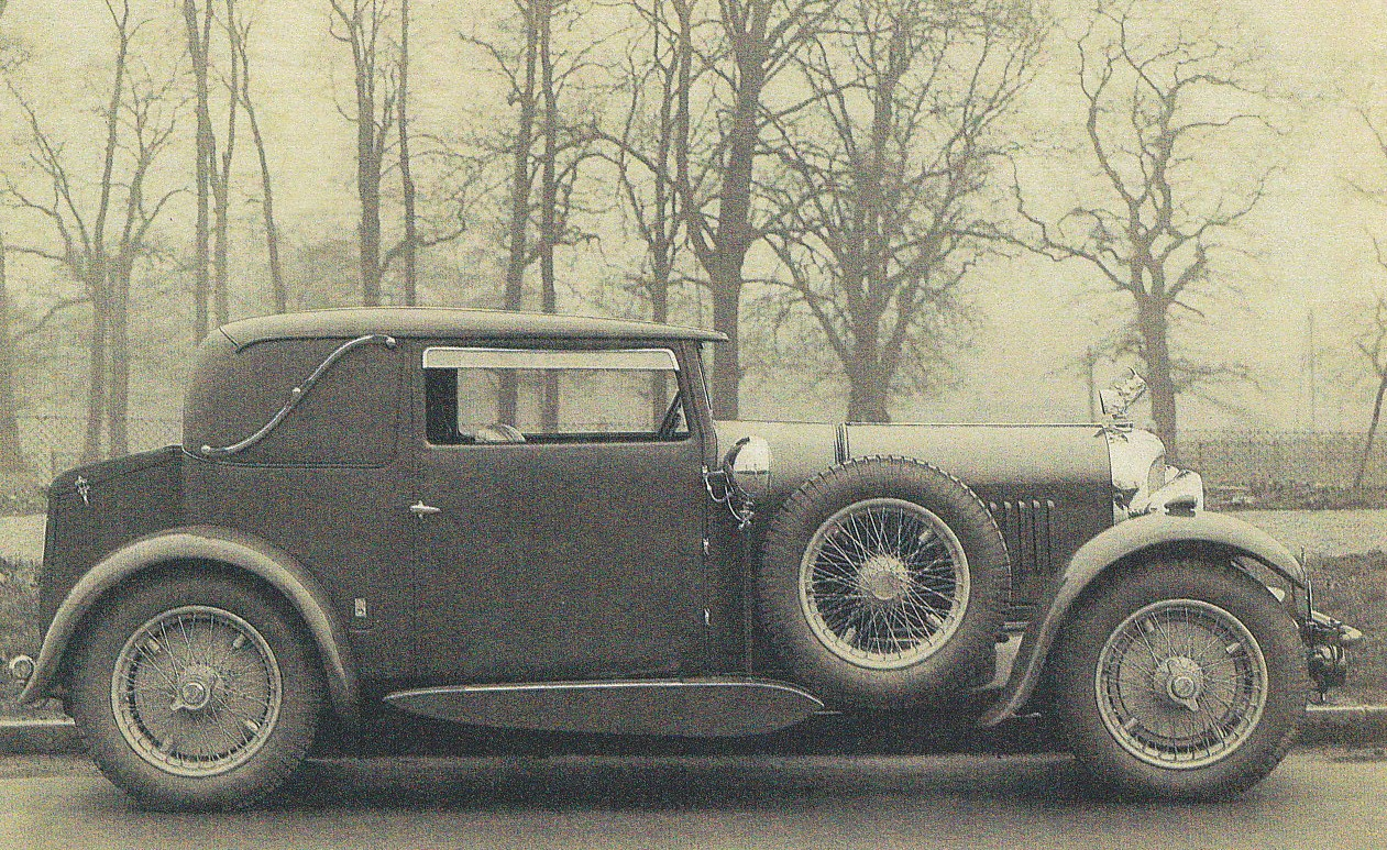 Bentley 4-1/2 Litre Supercharged (#SM3905) seen here with its original Maythorn coupé body. Since rebuilt as VdP replica open tourer. Delivered April 1930, original body: Weymann saloon by Maythorn Chassis SM3905 Engine SM3904 Reg EU 919 Source of data—Vintage Bentleys